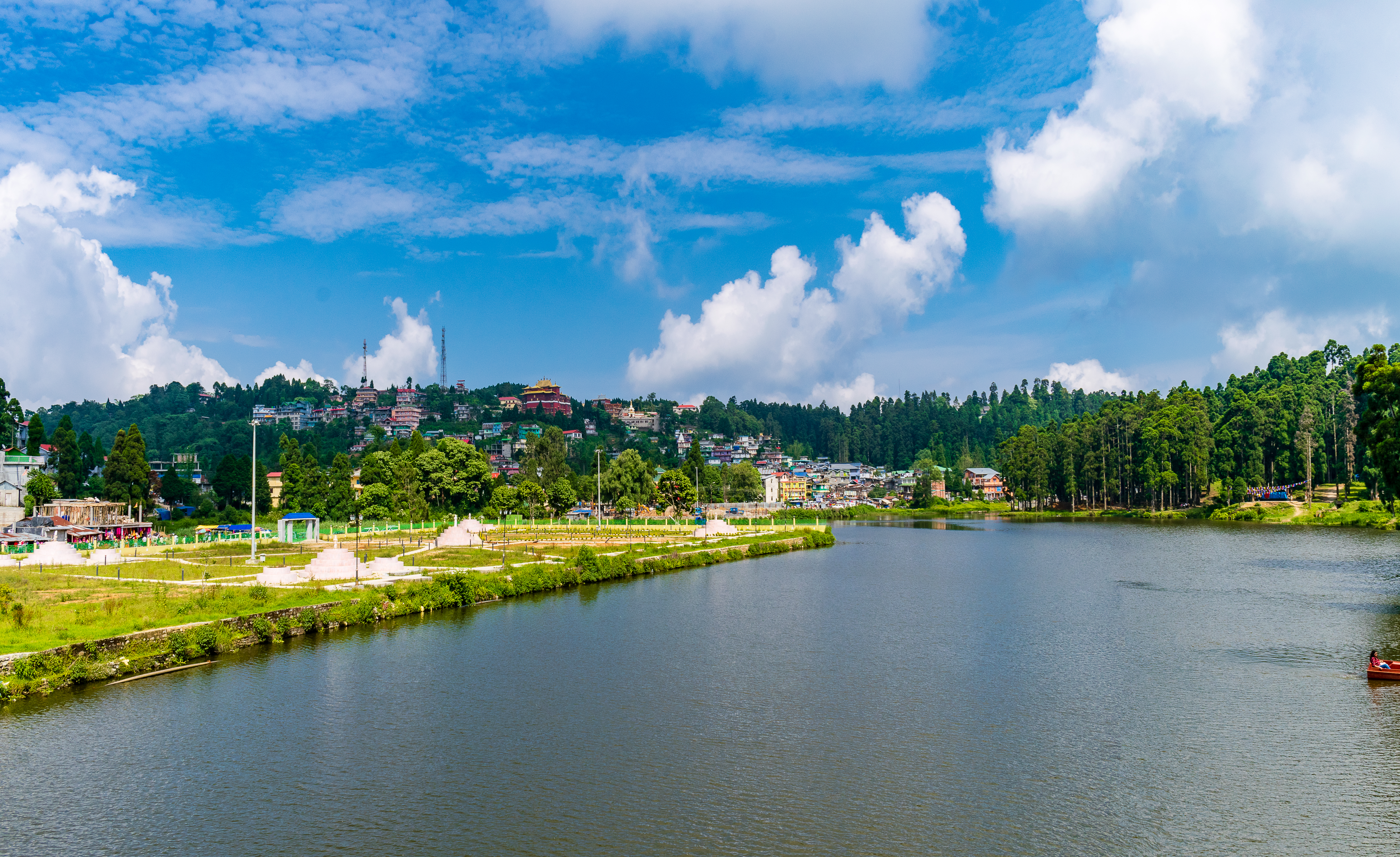 Panoramic Image of Sumendu Lake Mirik